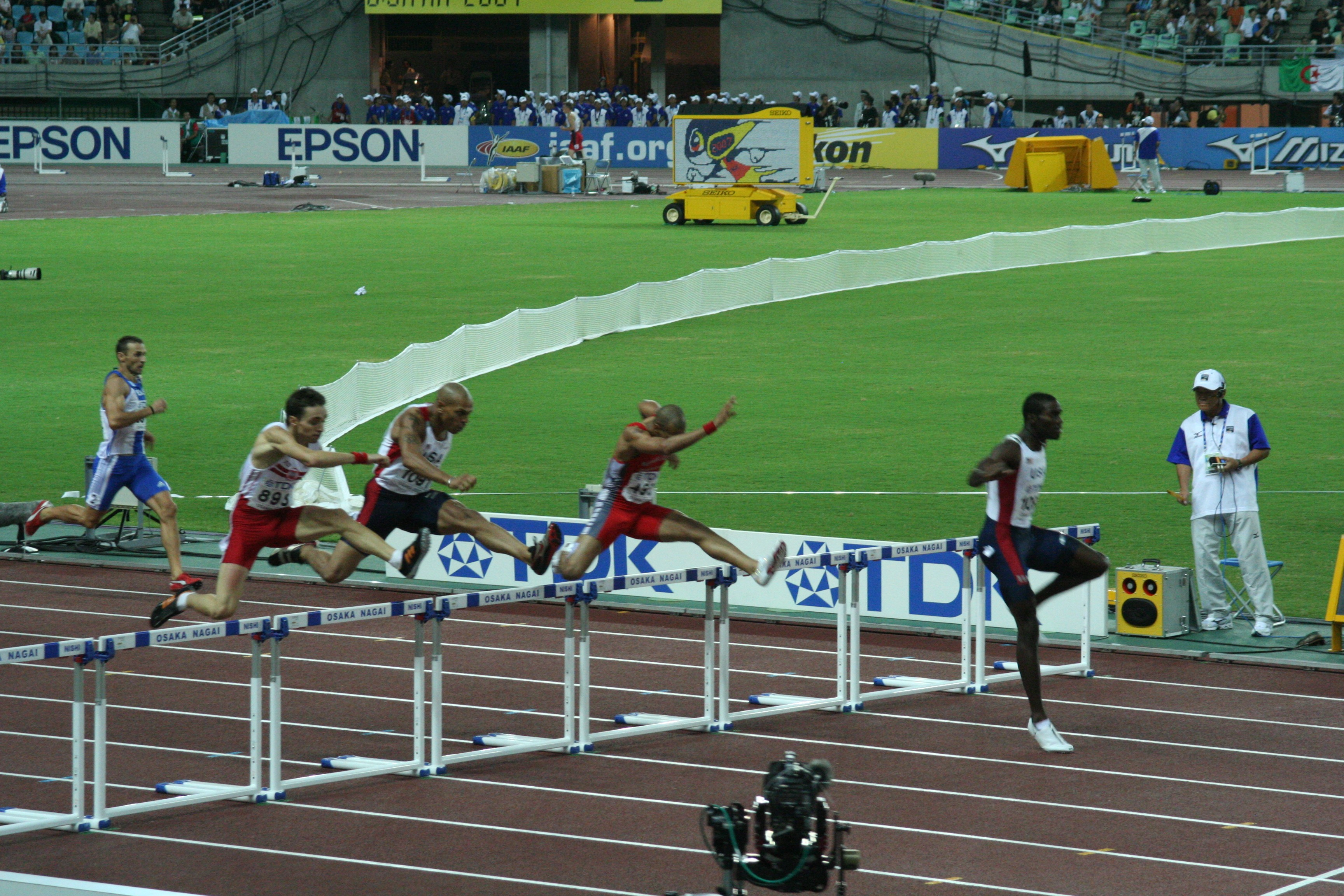 World Athletics Championships 2007 in Osaka - last hurdle in the men's 400m hurdles final - includes winner Kerron Clement (right): Periklís Iakovákis, Marek Plawgo, James Carter, Felix Sánchez, Kerron Clement